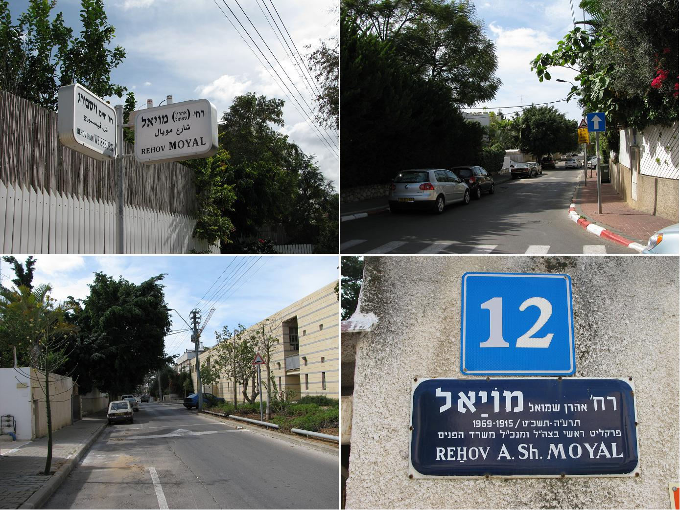 Aharon Moyal street in Tel Aviv